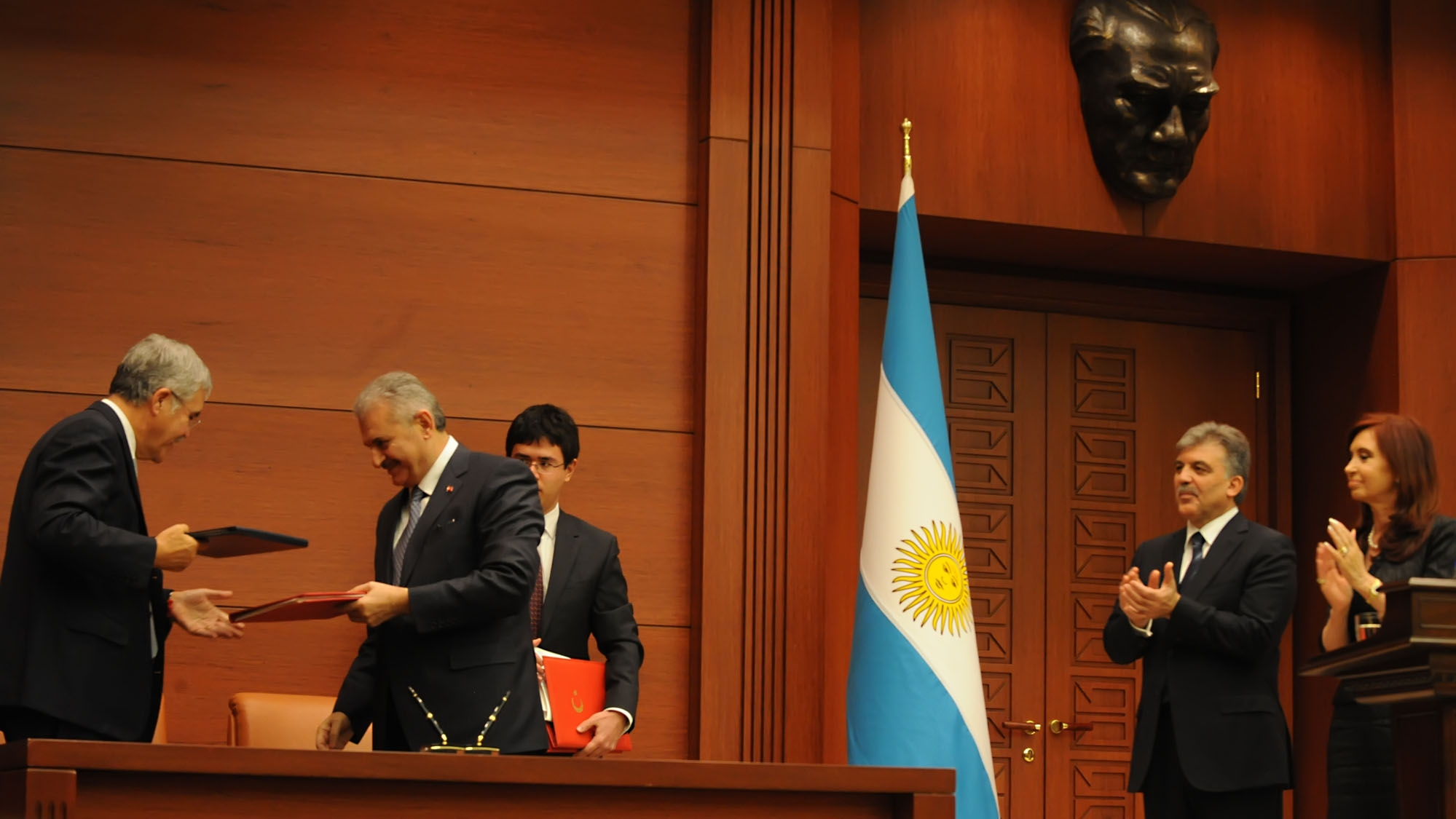 Turkish President Abdullah Gul (2nd R) and Argentina's President Cristina Fernandez de Kirchner (R) applaud, as Transport Minister Binali Yıldırım of Turkey (2nd L) and his Argentine counterpart (L) sign an agreement, at the Presidential Palace of Cankaya in Ankara, Turkey.